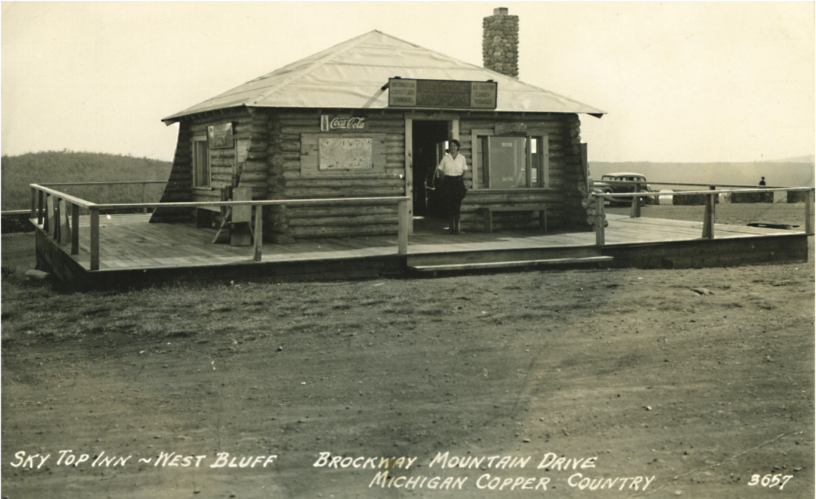 Completed Skytop Inn. Note that the single, stand-alone, rubble stone "rock guard rails" are visible along the permeter of the loop road in this photograph. Adrian Tousigant standing adjacent to doorway.